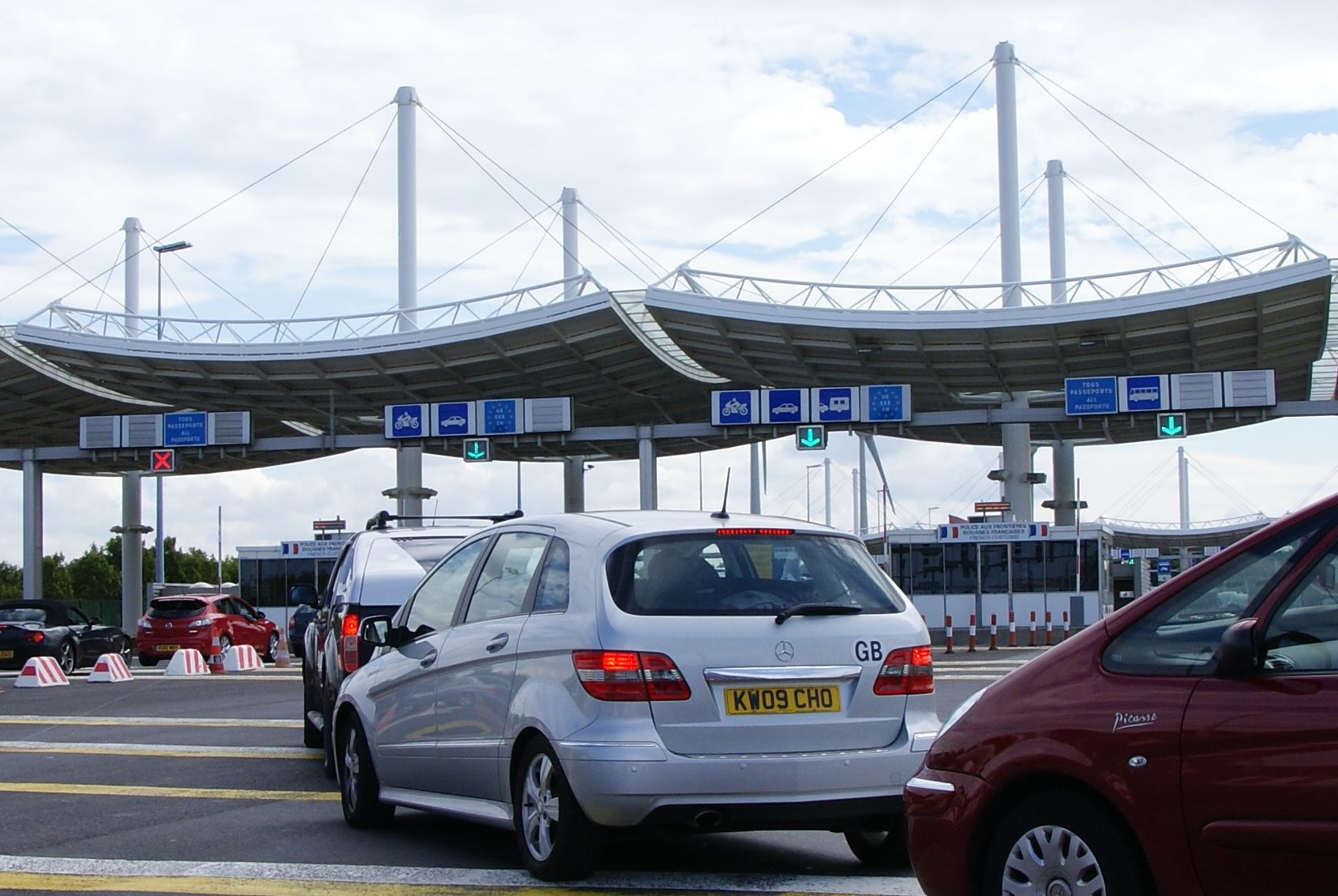 Border control operated by the French Border Police (Police aux frontières) and French Customs (Douanes) when leaving France and the Schengen Area at the juxtaposed controls at the Eurotunnel Calais Terminal, Coquelles, France.